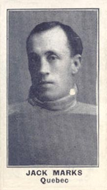 Hockey player Jack Marks of the Quebec club on a 1912 C57 hockey card.